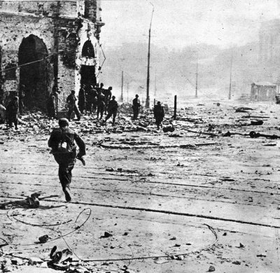 Warsaw Uprising: Soldiers from Nazi unit Dirlewanger on the Bielańska Street near Theatre Square.